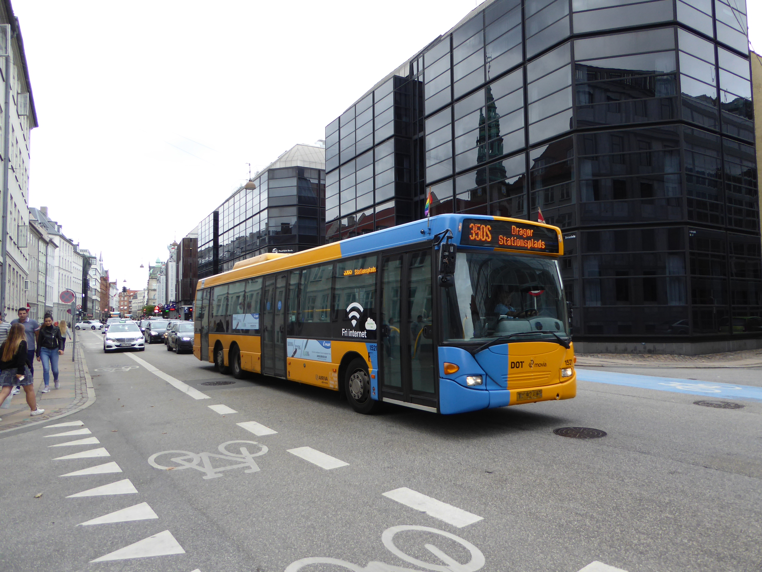 Movia bus line 350S on Bremerholm in Indre By in Copenhagen. The rainbow flag is due to the Copenhagen Pride Parade that day. On the building behind the bus the reflection of the tower of Kunsthallen Nikolaj can be seen.